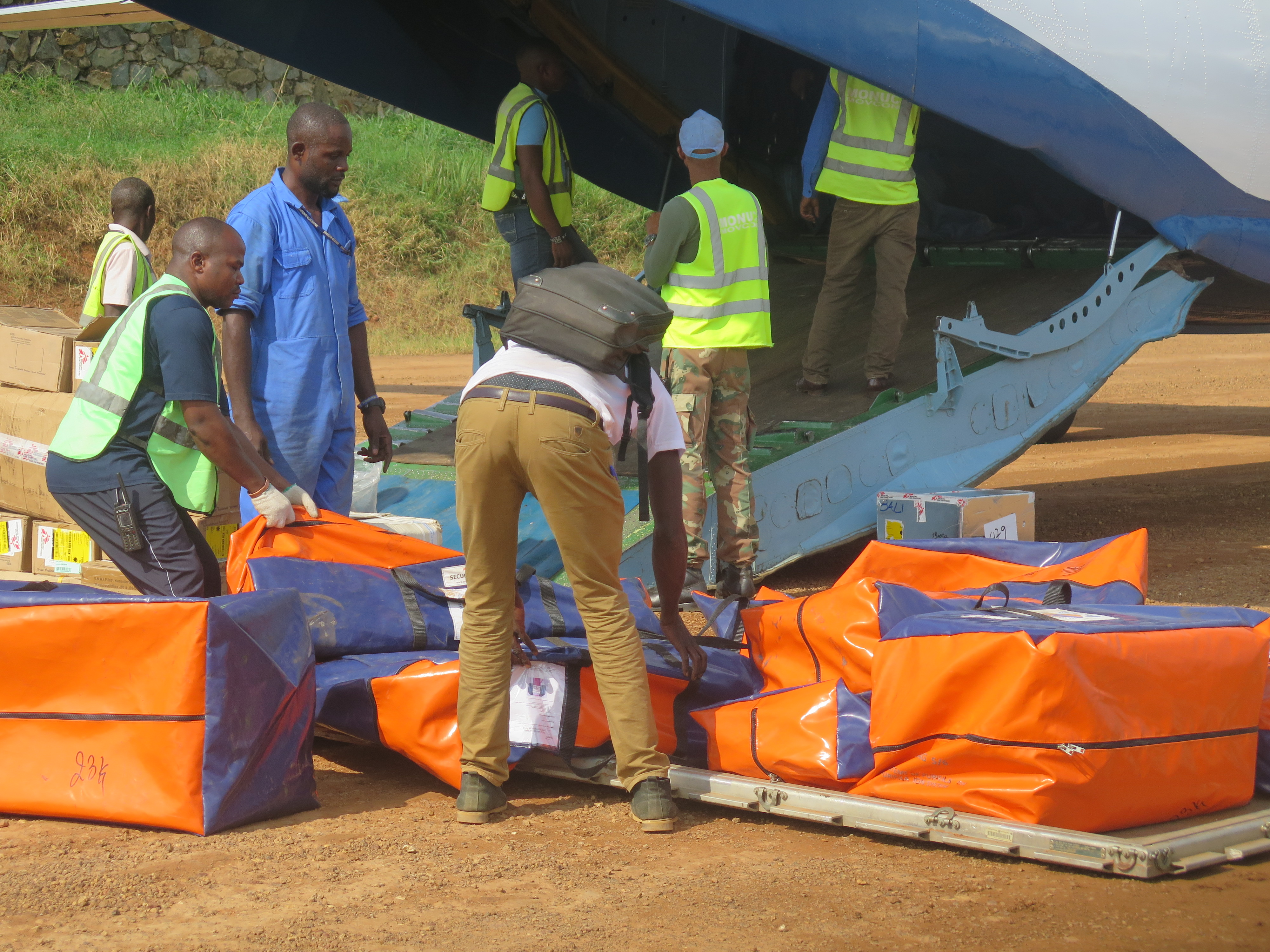 Beni,North Kivu Province,DR Congo: Arrival of medical logistics at the Beni Airport fot the fight against the spread of Ebola in the region.Photo MONUSCO/Mamadou Alain Coulibaly